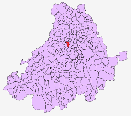 Brabos